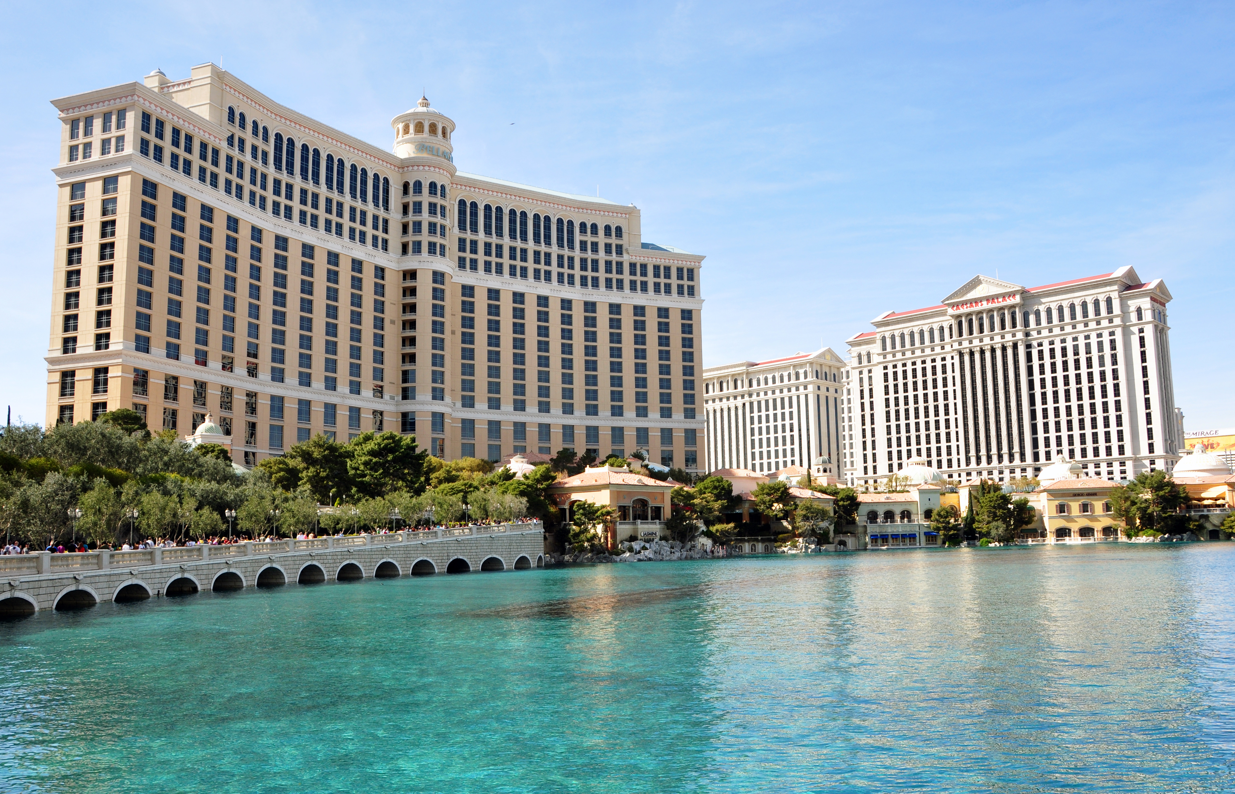 The Bellagio fountain Caesar's Palace Las Vegas Strip March 2010